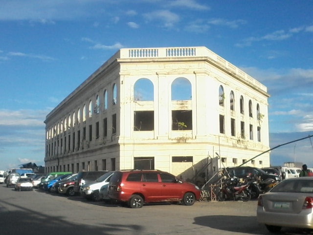 Compania Maritima south-side view